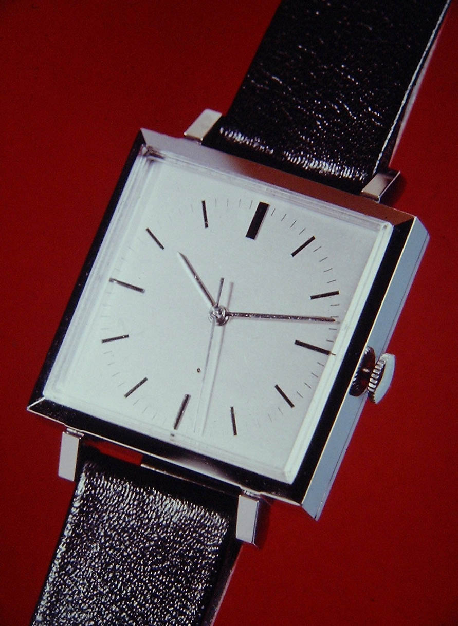 Worlds first electronic quartz wristwatch BETA 1 developed by the Centre Electronique Horloger (CEH) in Neuchâtel, Switzerland, published in 1967